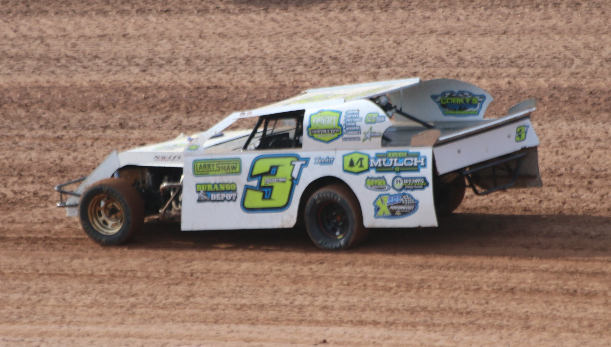 The Northern Sport Modified of 2017 national champion Tyler Soppe at the Clash at the Creek race at 141 Speedway.